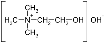 Chemical structure of choline hydroxide